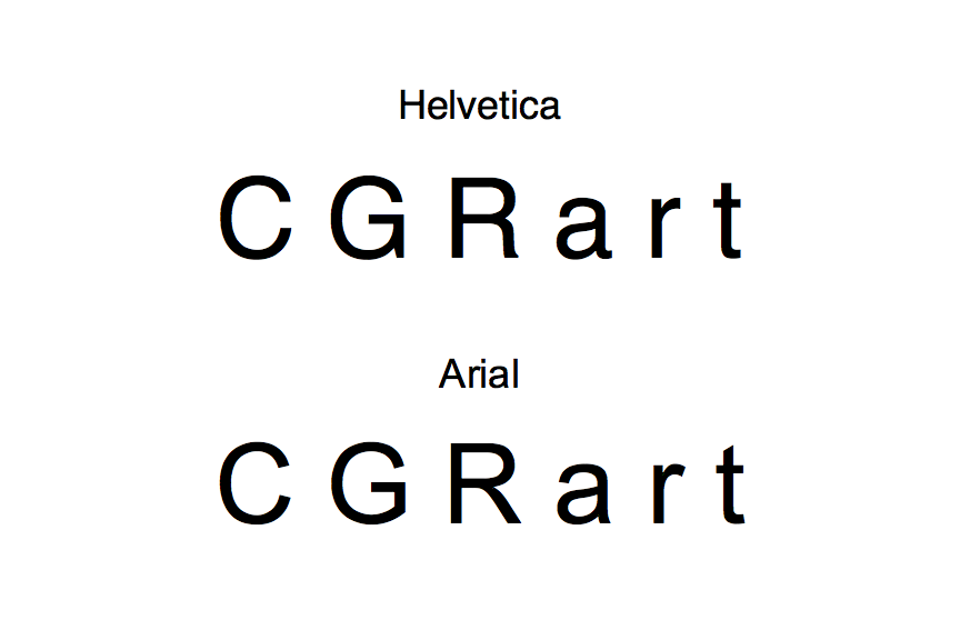 Useful letters for fast differentiation between Helvetica and Arial.